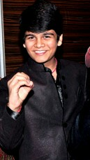 Bhavya Gandhi during 1000 episode party of TMKOC